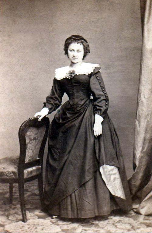 1880s portrait of French actress Jeanne Bérangère (1864-1928)